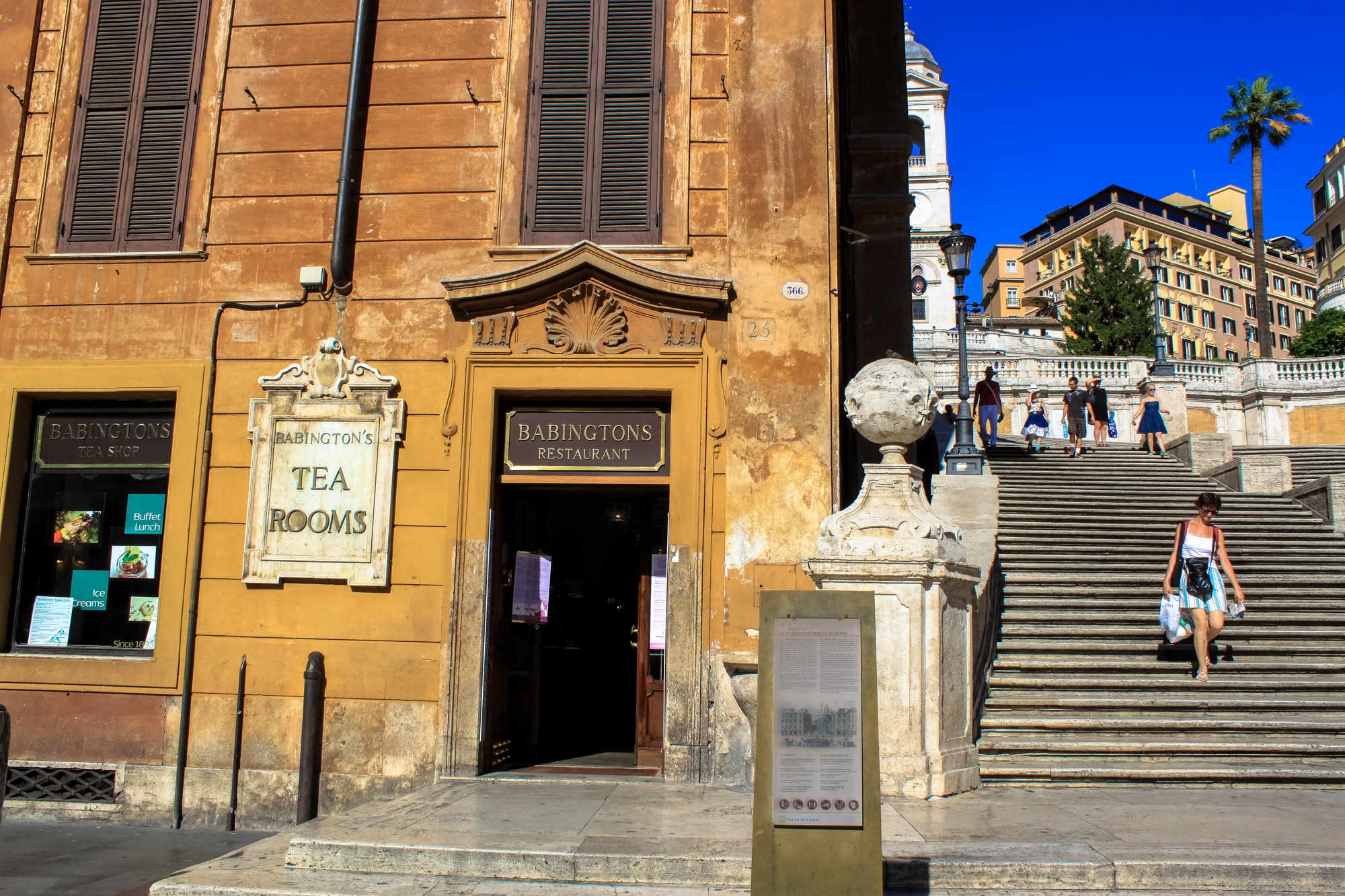 Babington's Tea Rooms, Rome